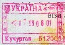 Passport exit stamp from Kuchurgan (Kuchurhan, Кучурган), Ukraine-Transnistria border